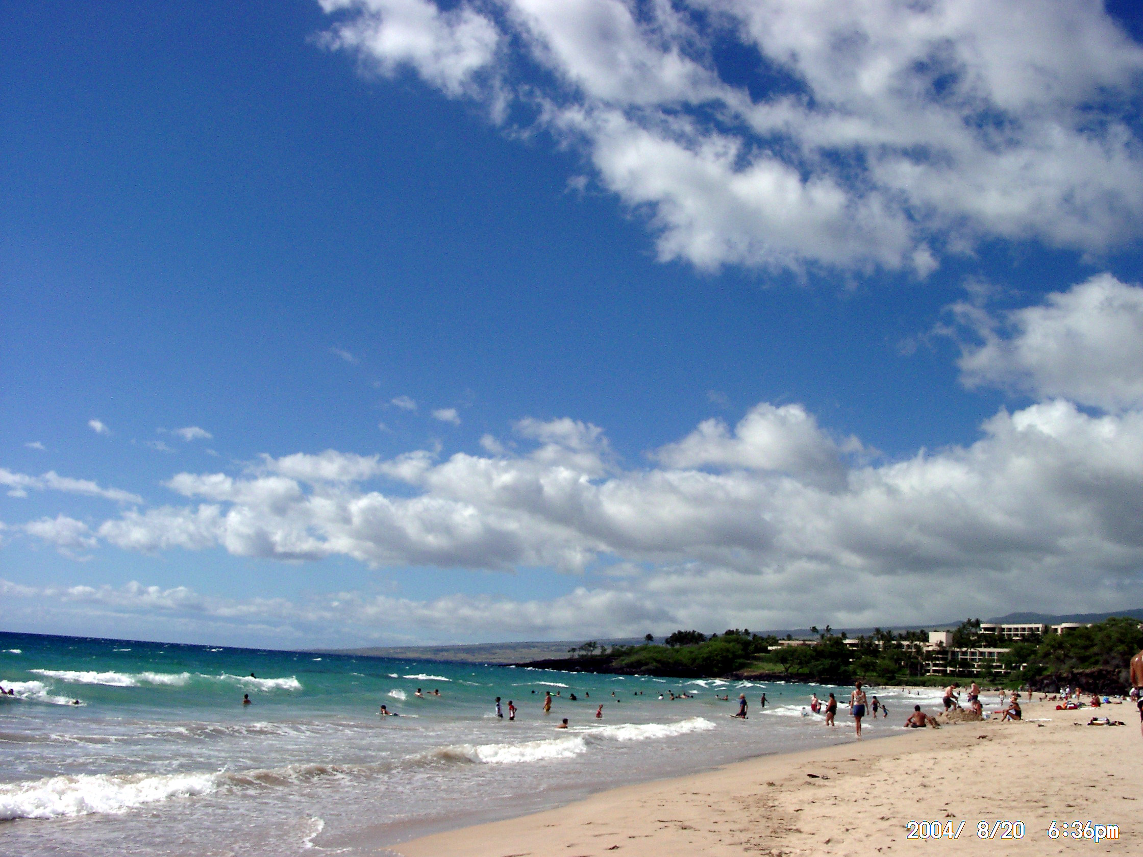 One of beaches